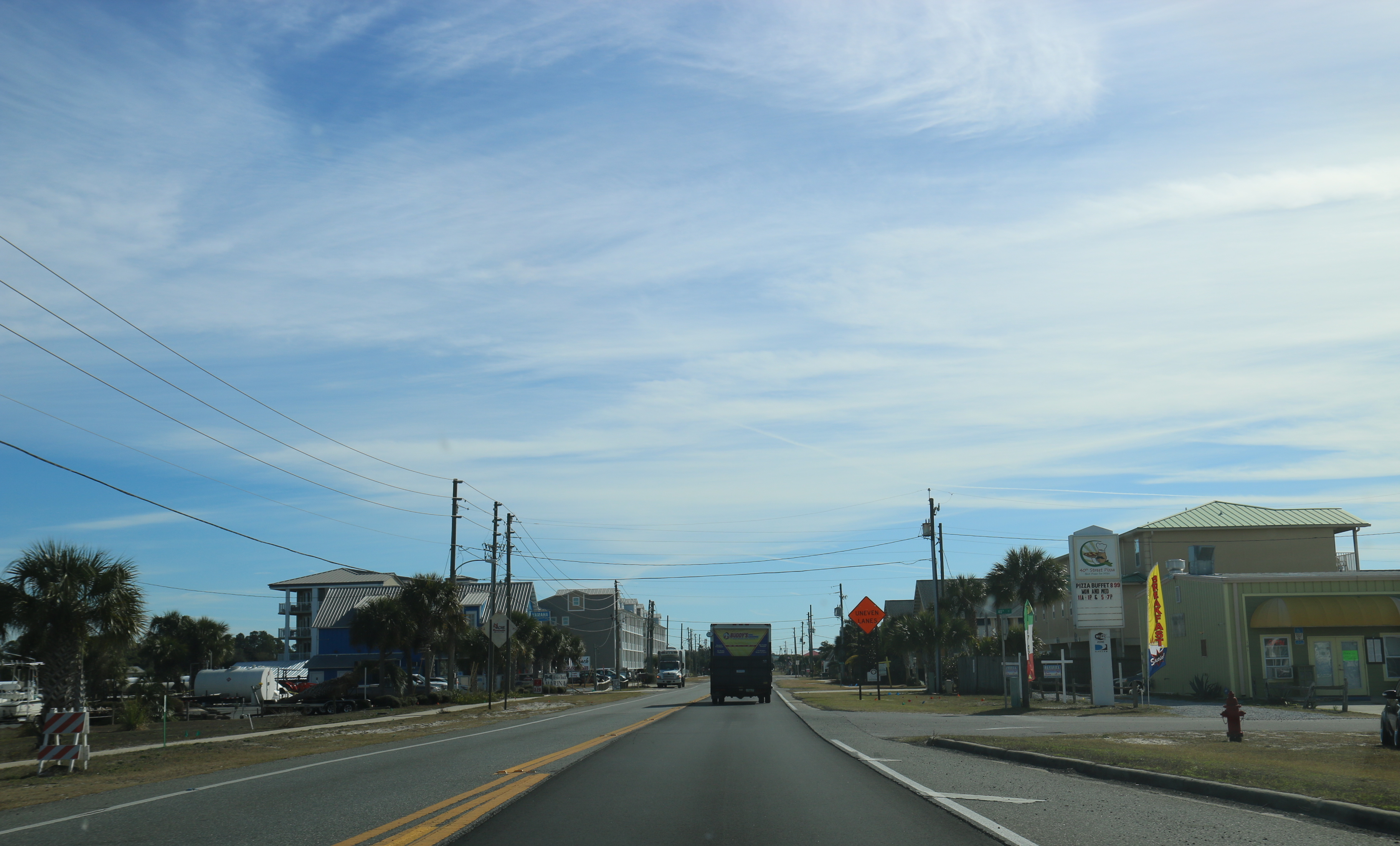 Traveling easterly on U.S. Route 98 in Mexico Beach, Florida.